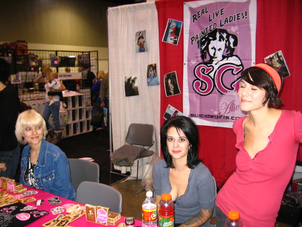 I like the angle I happened to have snapped this shot from. ;)